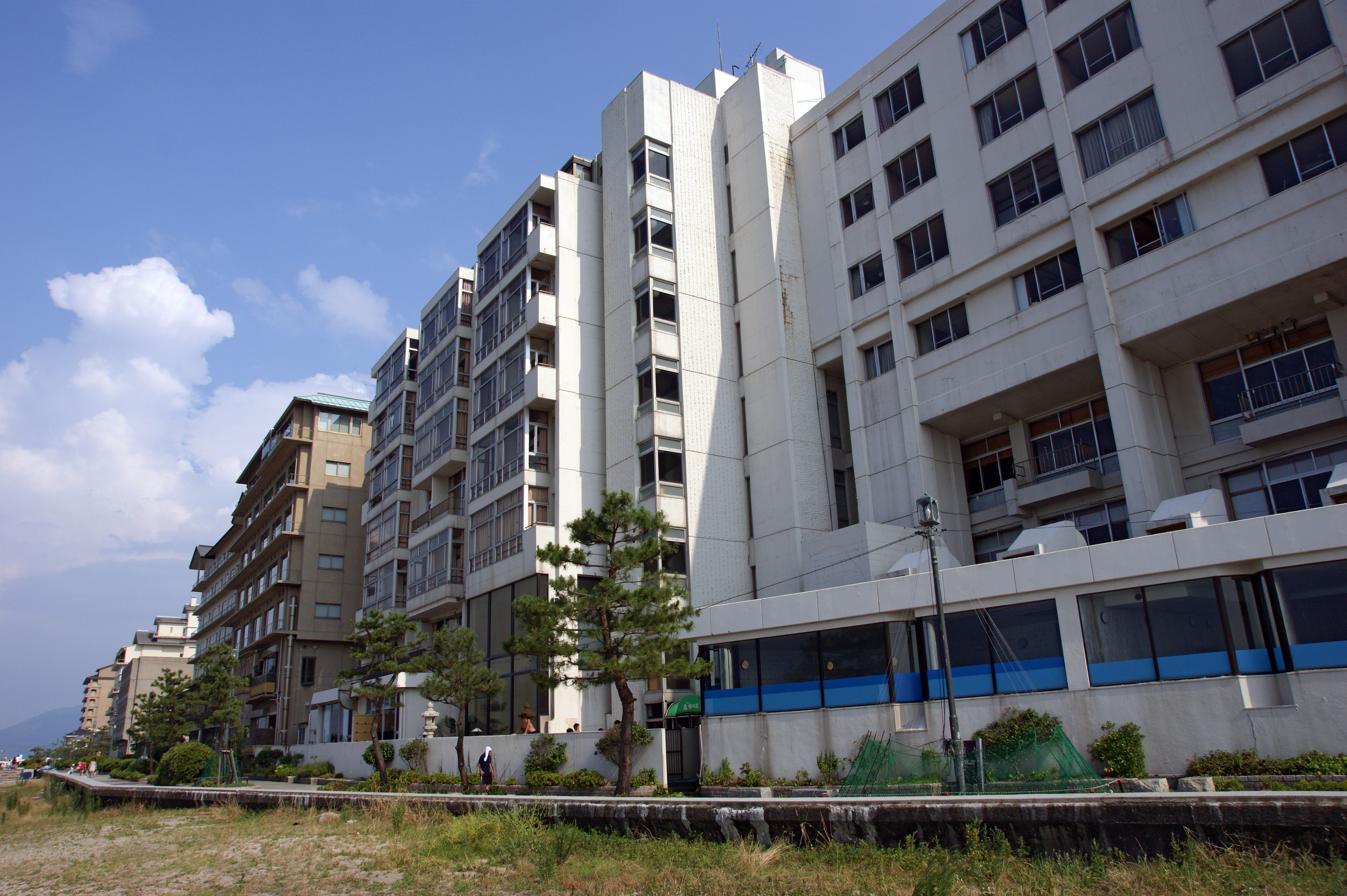 Kaike Onsen in Yonago, Tottori prefecture, Japan